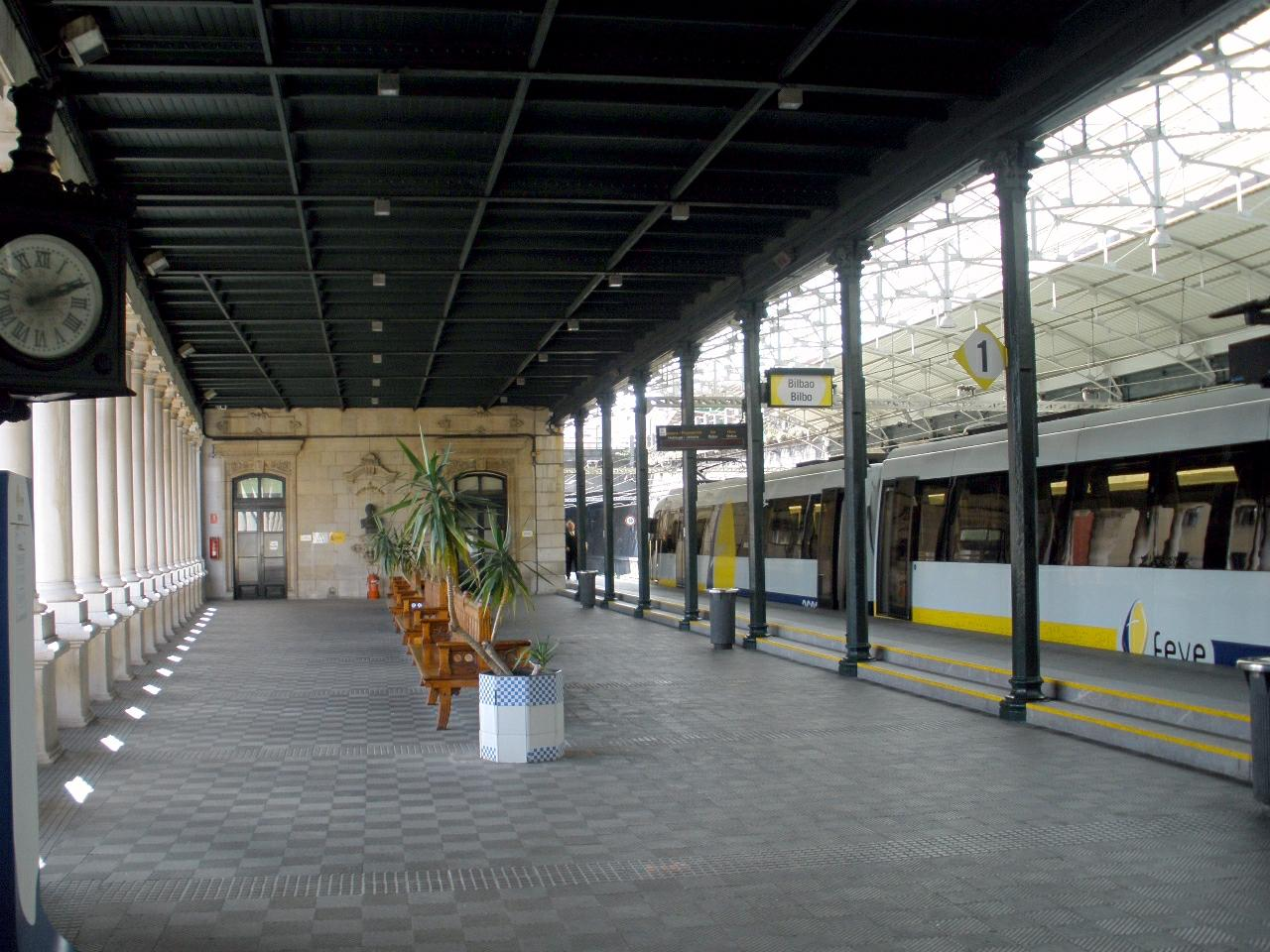 Estación de FEVE Concordia, en Bilbao (Vizcaya, País Vasco, España)